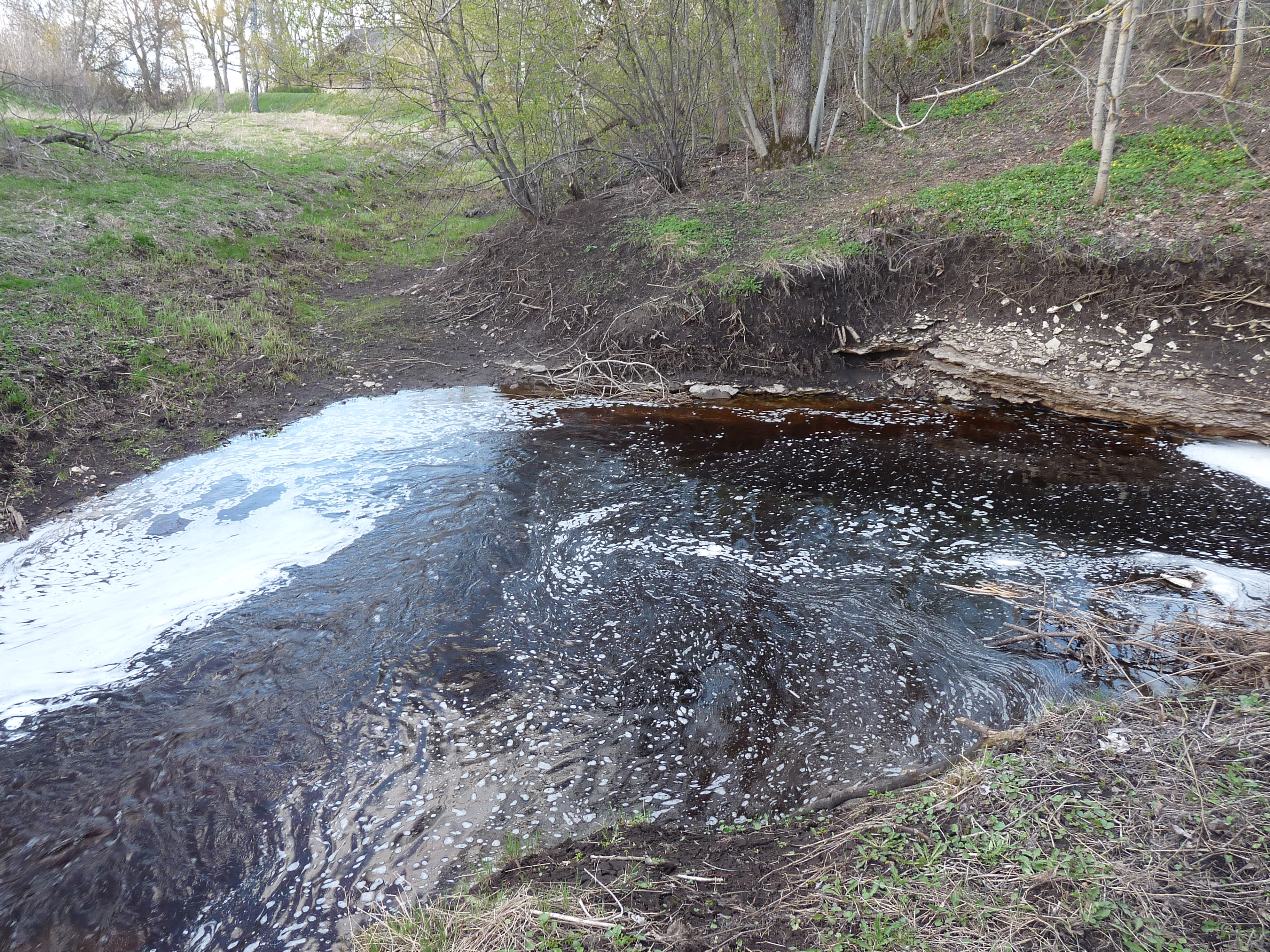 Tuhala River in Estonia